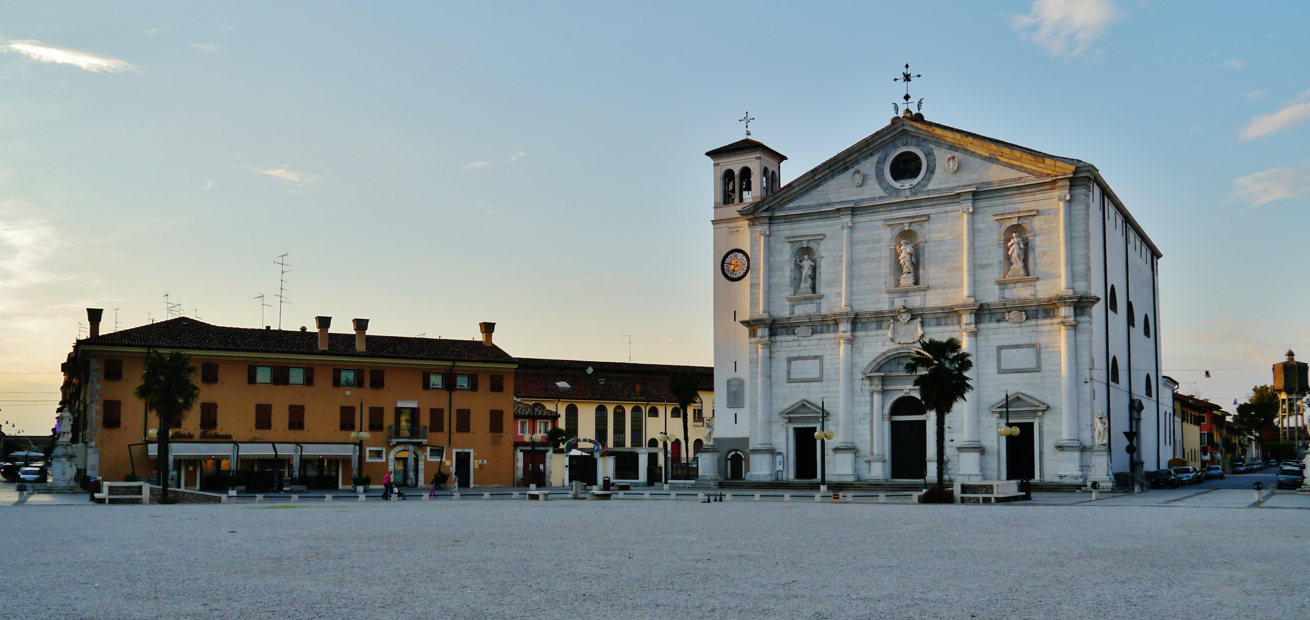 Piazza Grande with the Cathedral, Palmanova, Friuli-Venezia Giulia, Italy